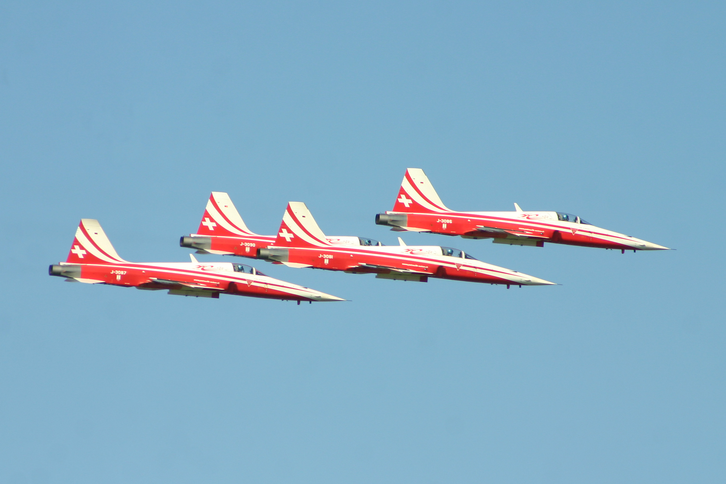 Patrouille Suisse, Air 04, Payerne, Switzerland